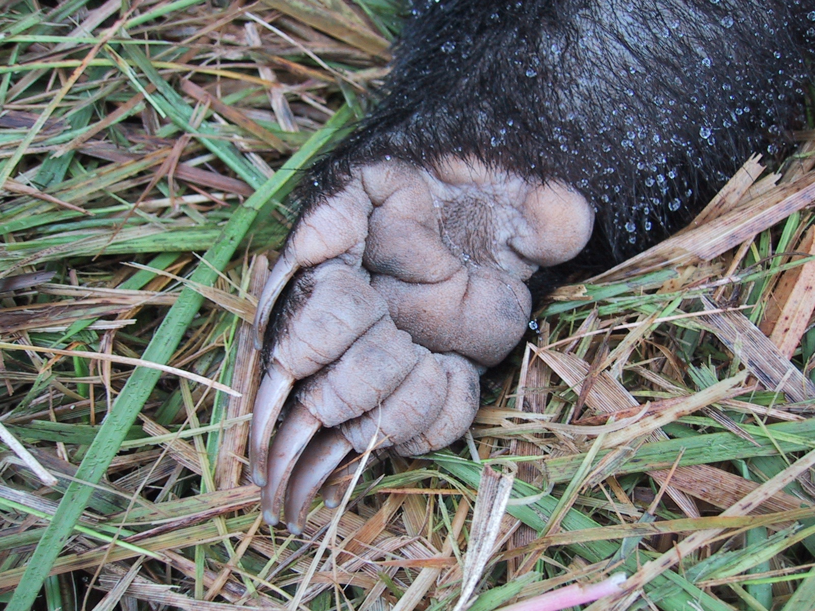 Front paw, right, of a European Badger (Meles meles). Dead animal on a road - Charente-Maritime (France).